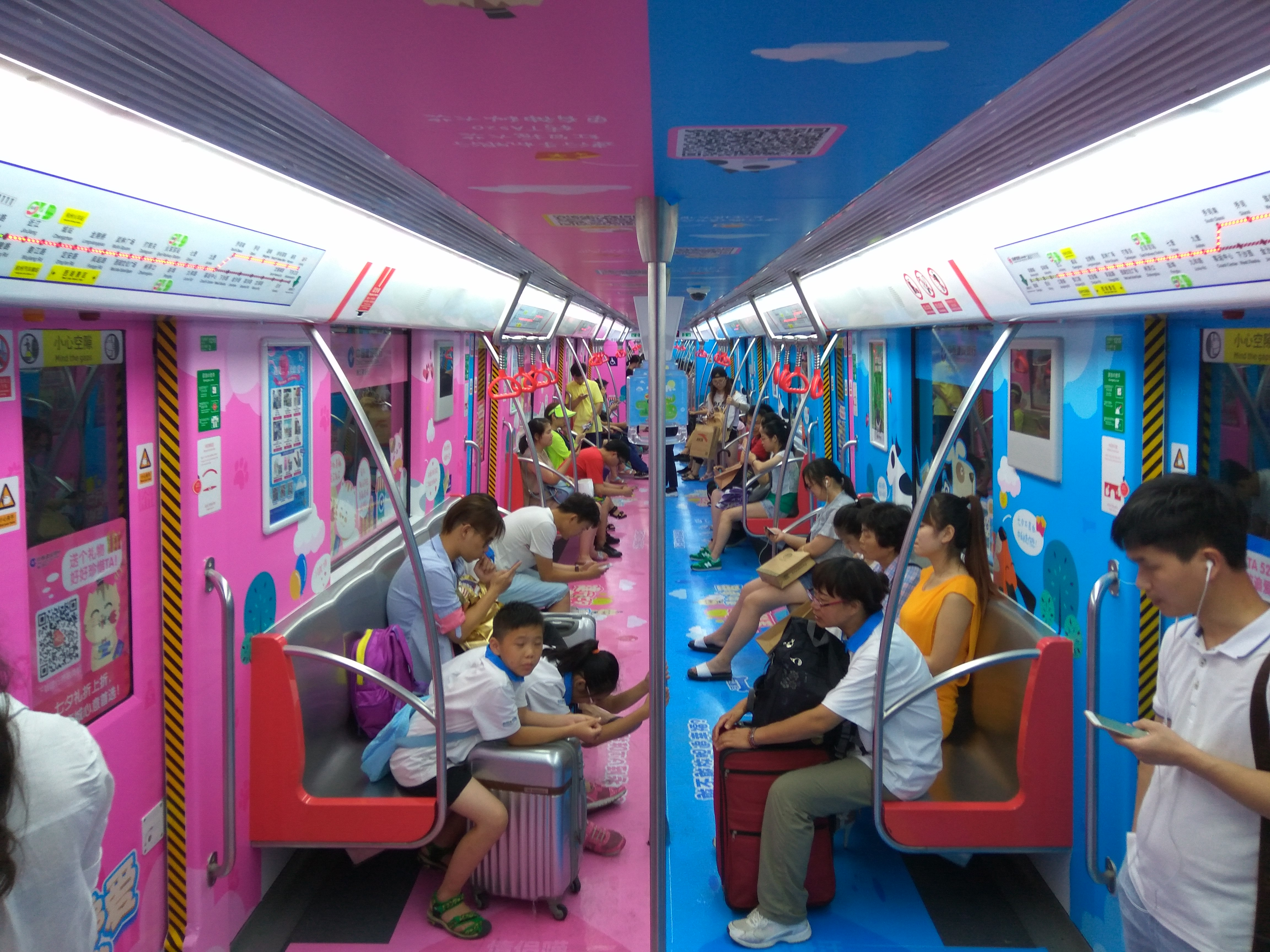 201607 HZMetro L1 vehicle interior with CBC adv